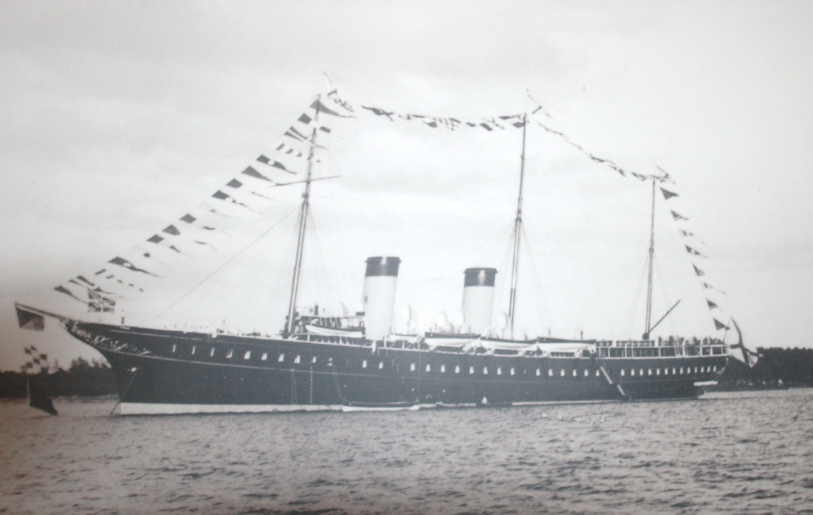 Tsar Nicholas II ship Standart